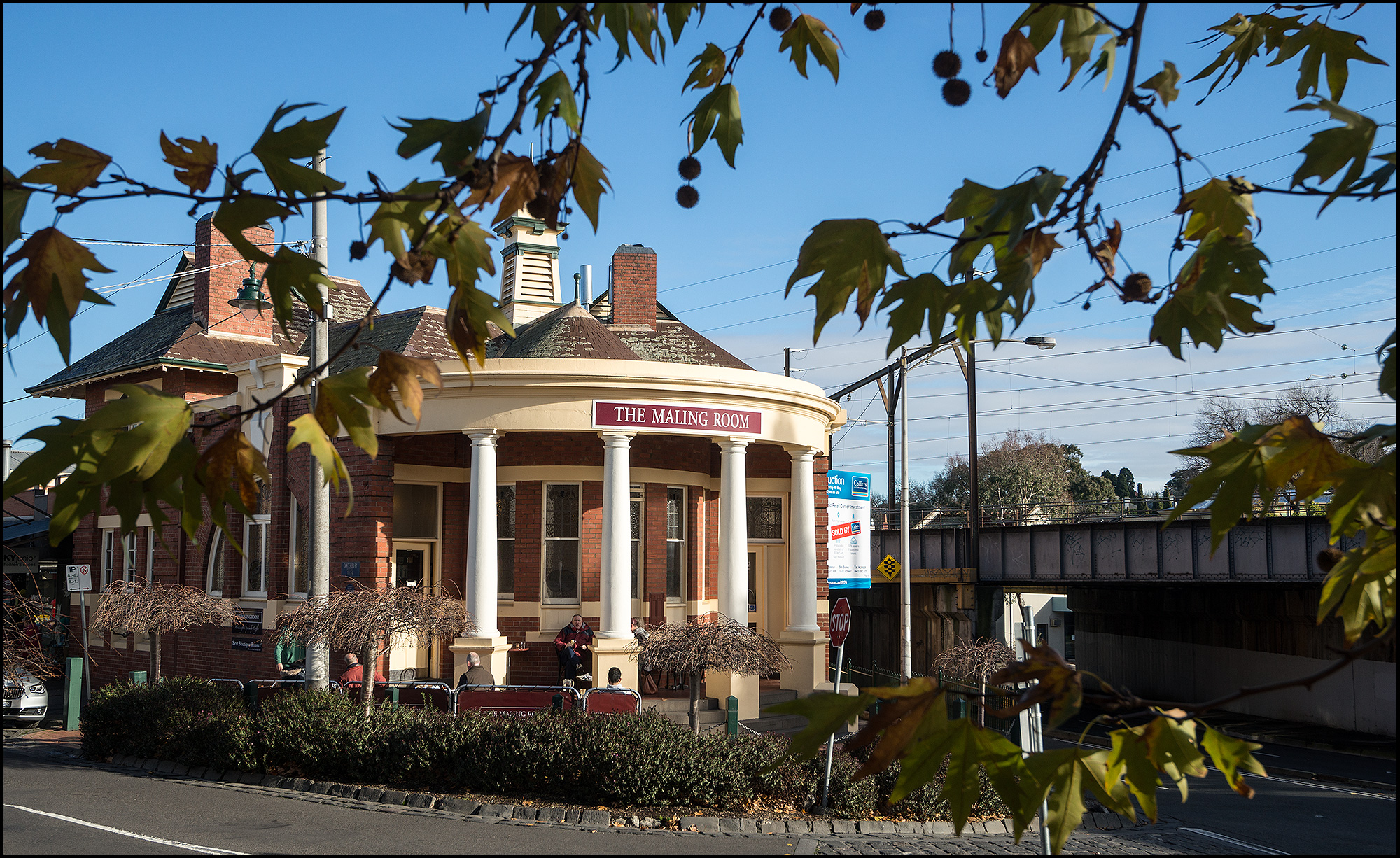 Image of the former Canterbury Post Office from across the road from the corner of Maling Road an Canterbury Road.